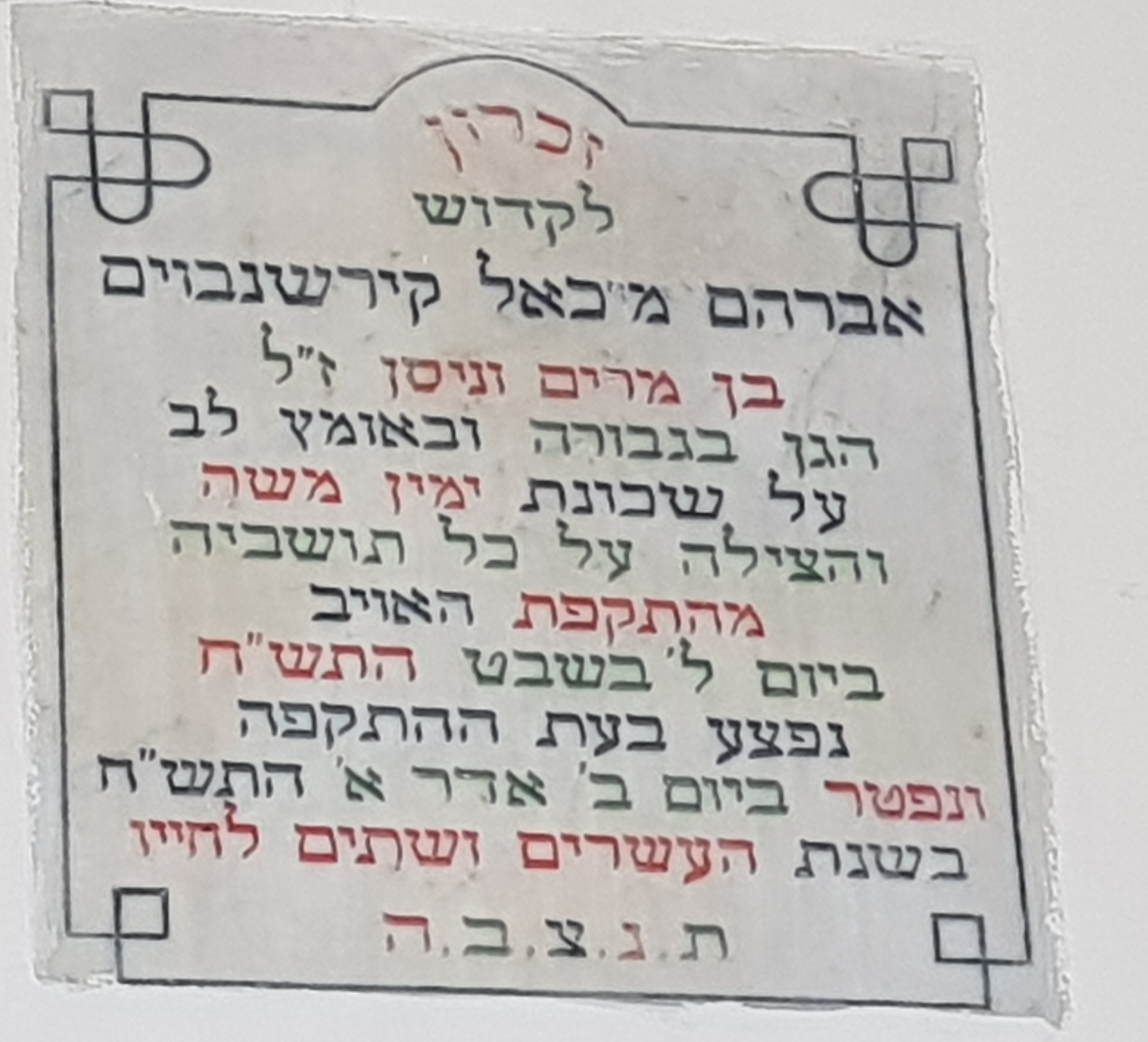 לוח זכרון לחייל אברהם קירשנבאום